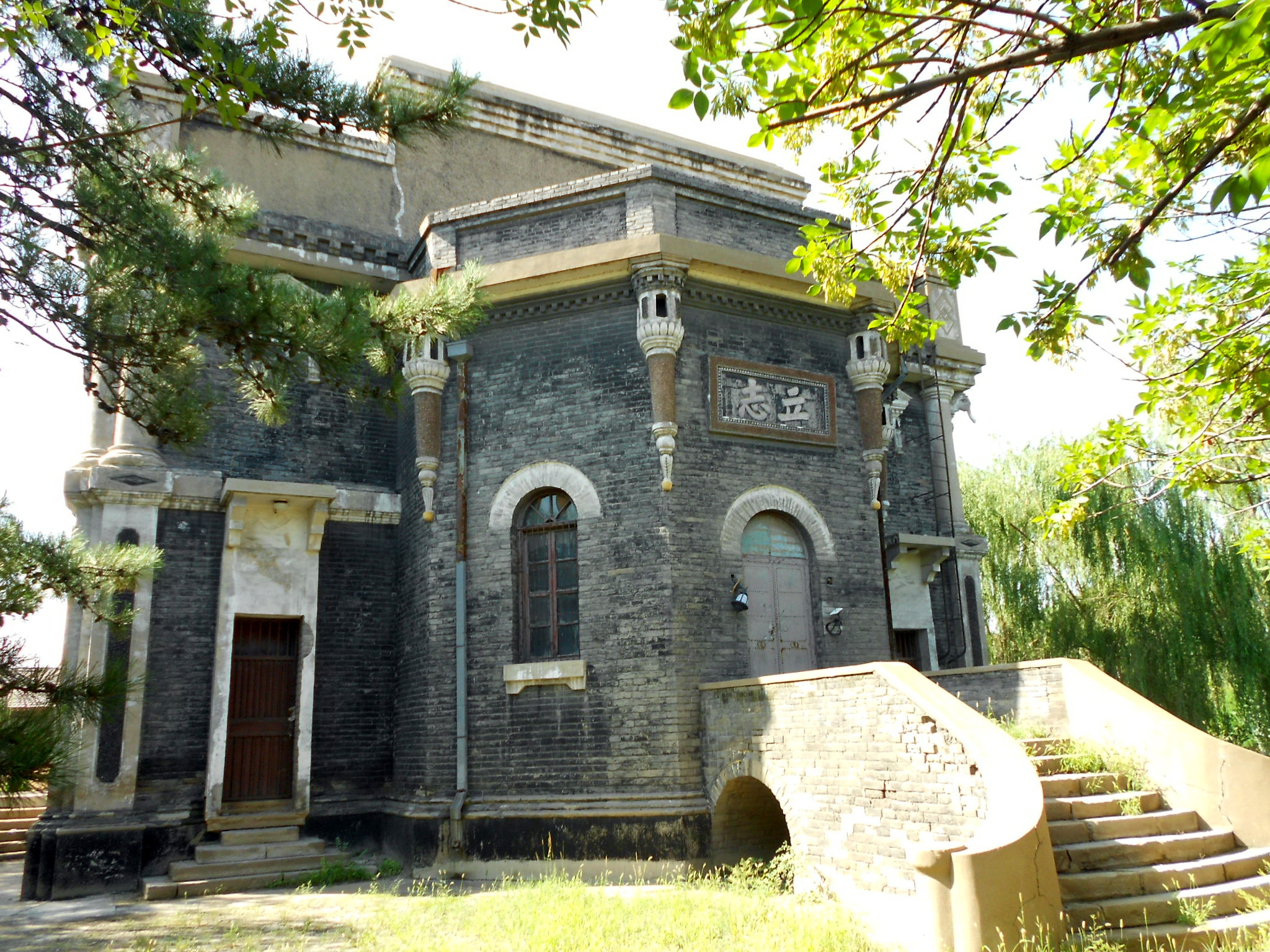 The Shanxi Third Middle School, Auditorium from the north east